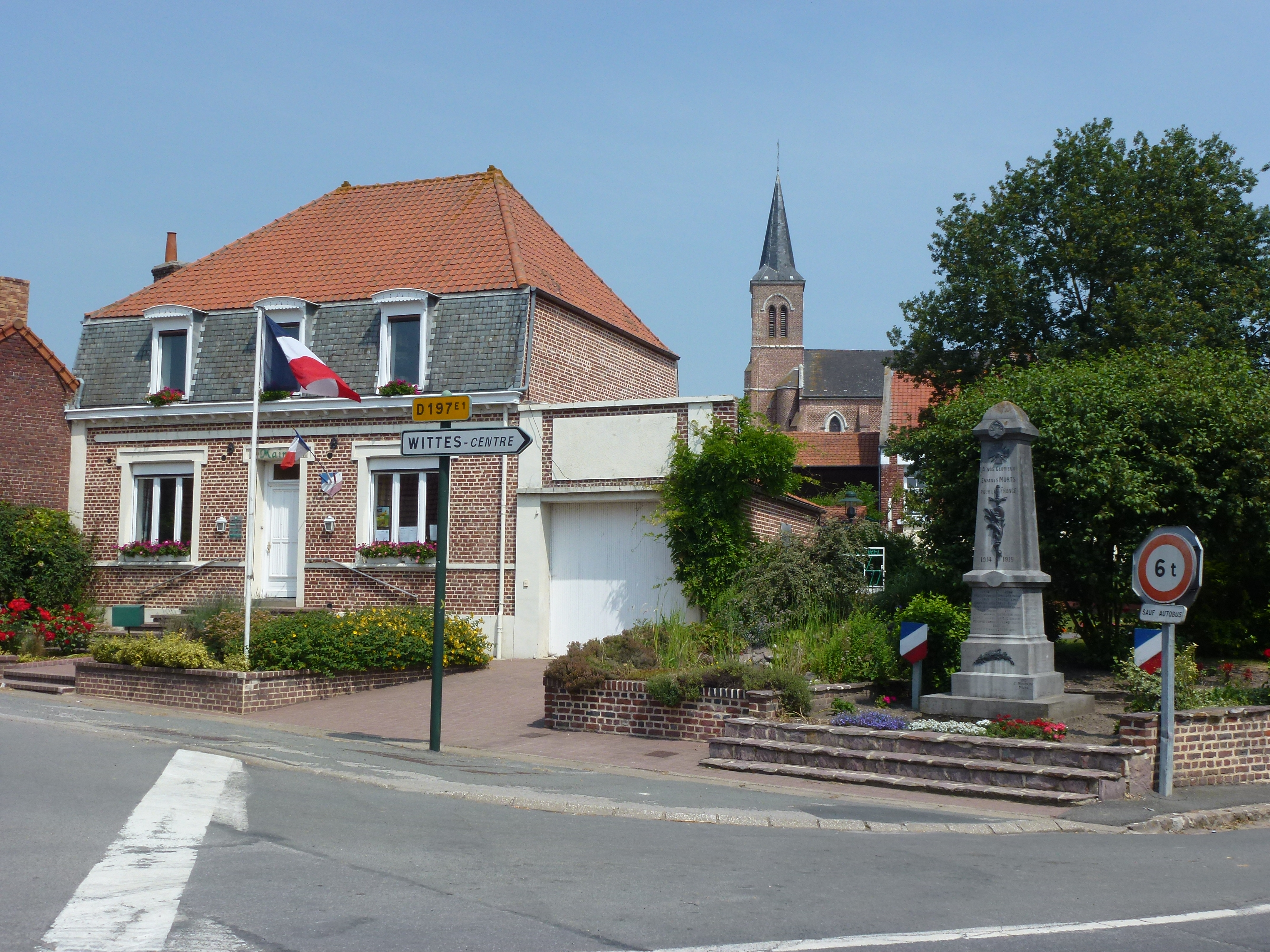 Wittes (Pas-de-Calais, Fr) mairie et monument aux morts (+ église)